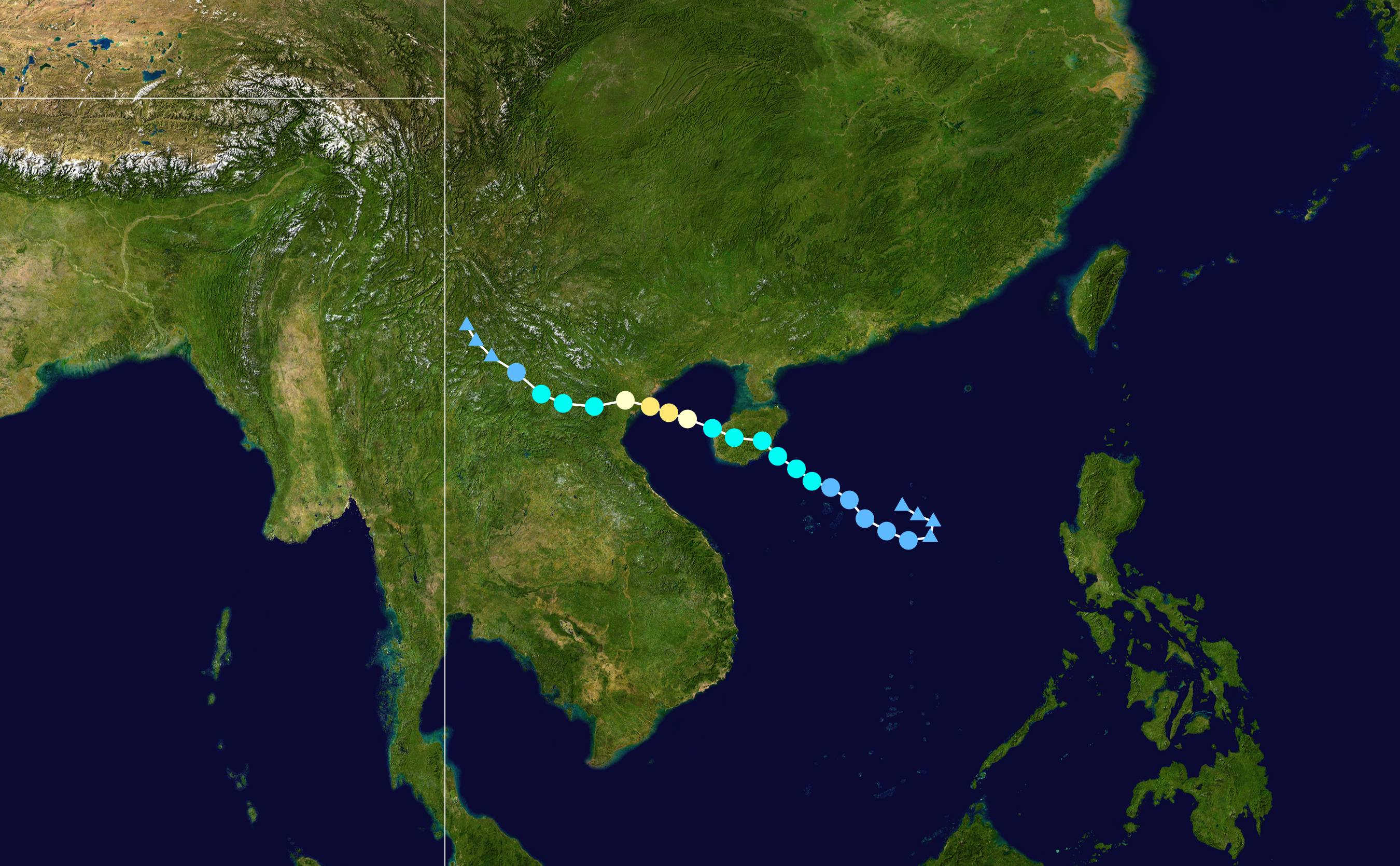 Typhoon Frankie 1996 track. Uses the color scheme from the Saffir-Simpson Hurricane Scale.